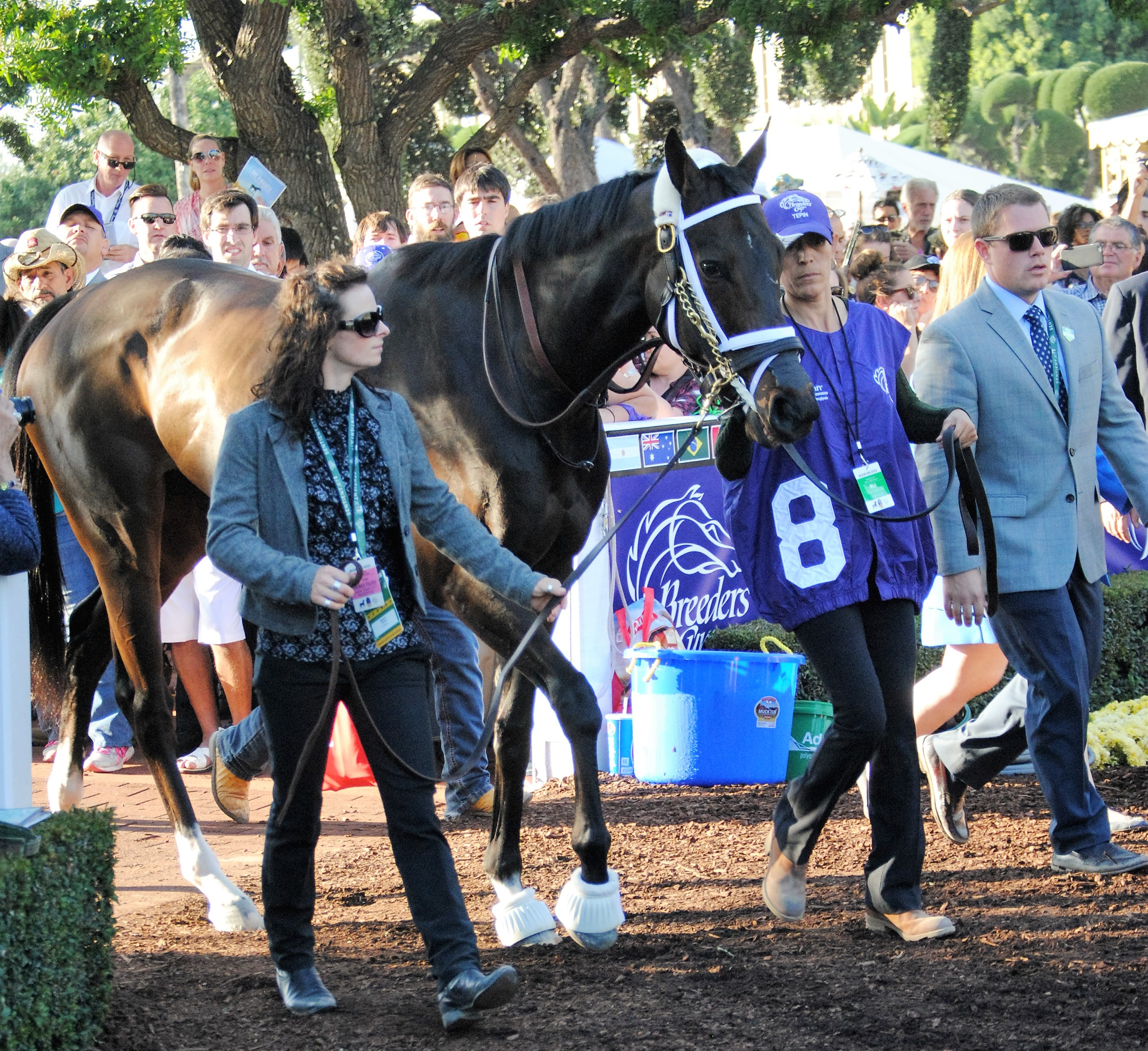 Tepin being led to the saddling ring before the Mile